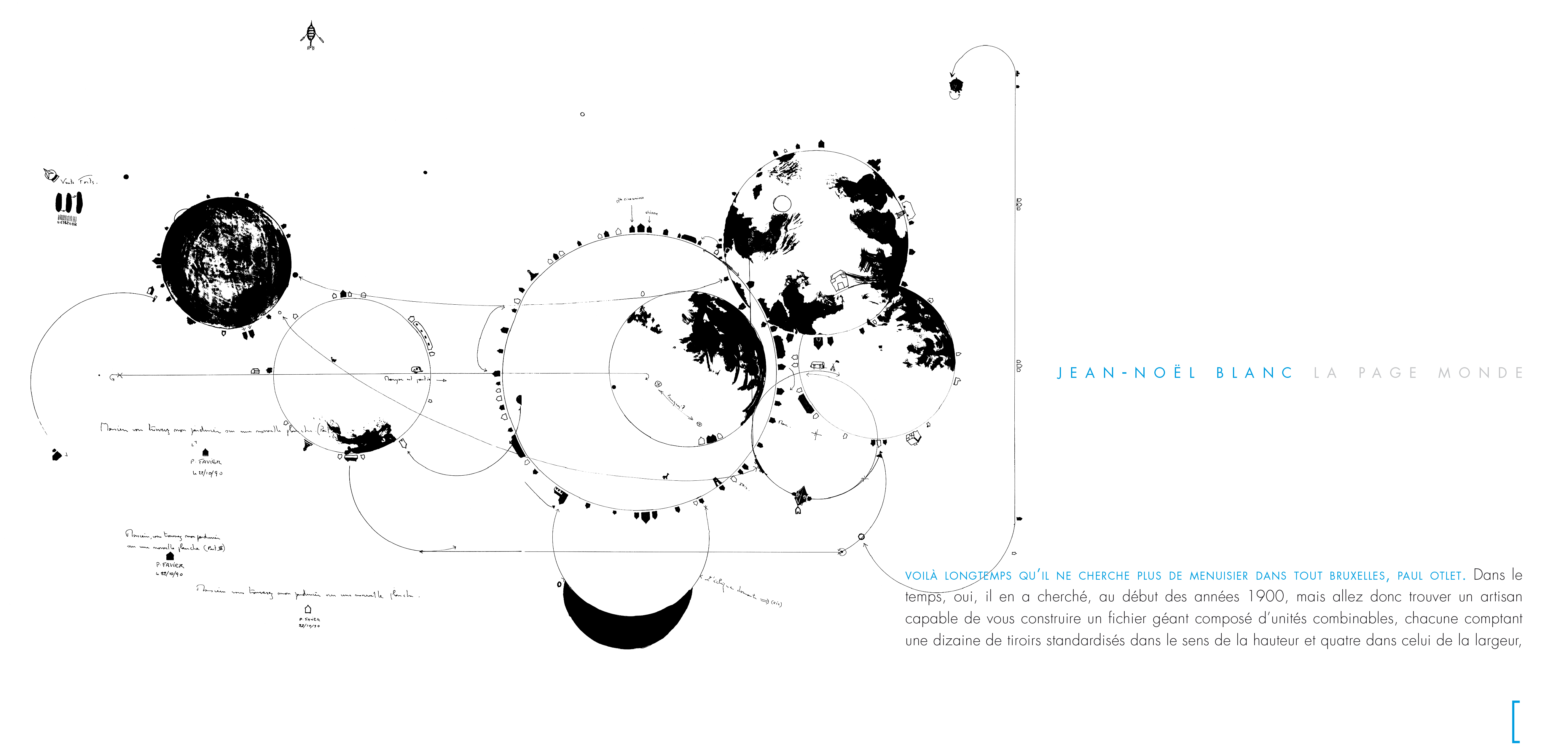 This book would like to explore further the page as a cultural phenomenon. Its architecture, its materiality, its ability to remain persuasive through time. Its history. And its future which inspires us – with or without the codex – reframing the meaning of the world.